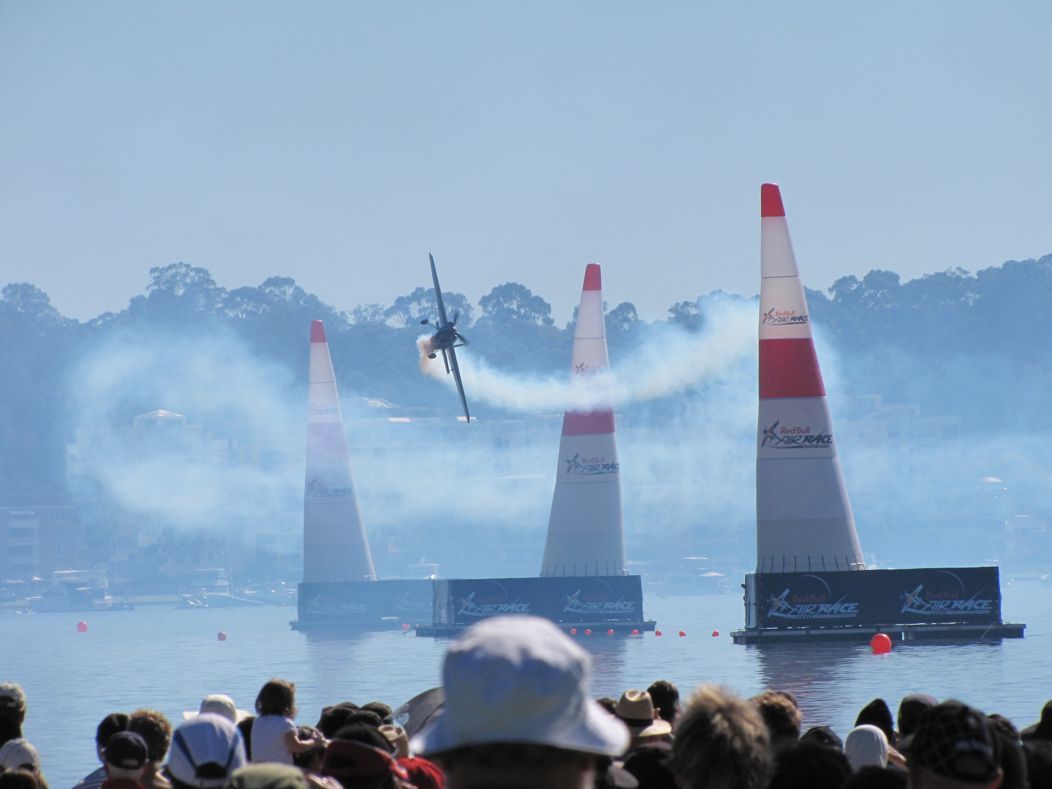 The Perth Red Bull Air Race was not held in 2009 but commenced again in April 2010. Once again Langley Park was converted to an airstrip and the larger crowd of spectators were to be found in Sir James Mitchell Park on the opposite bank of the Swan River. One of the Red Bull Air Race aircraft flies through the slalom on Race Day.